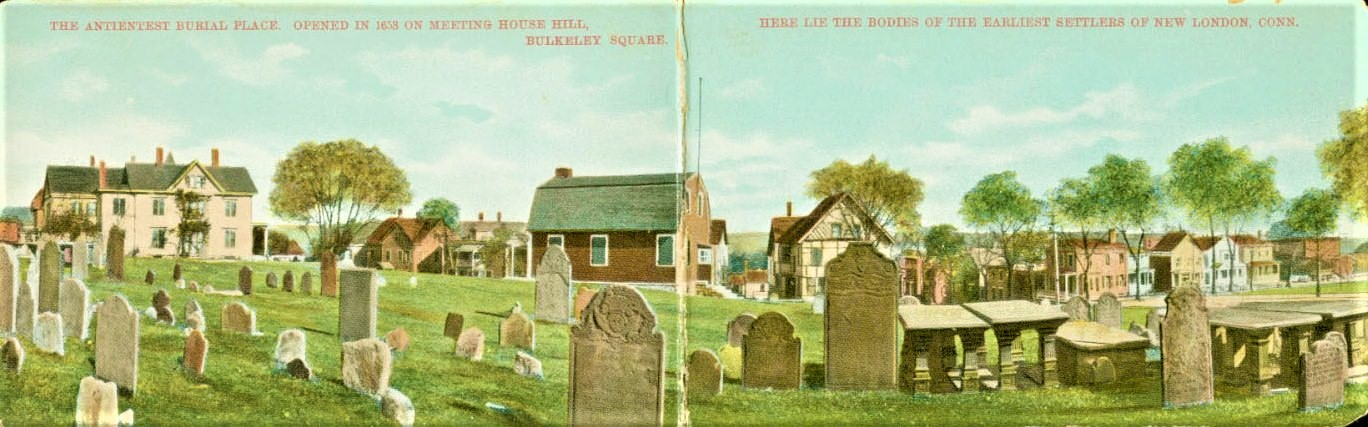 Double postcard picture of "The Ancientest Burial Ground" in New London, Connecticut, pre-World War I; crease very evident; postcard caption states: "The Antientest Burial Place. Opened in 1658 on Meeting House Hill, Bulkeley Square. Here Lie the Bodies of the Earliest Settlers of New London, Conn."; address side of card states in postage corner: "One cent postage all over the world"; address side also states "Write on back of this card only your name and address. Put rubber band around folded card. This side is exclusively for the address"; the card is unused/unmailed